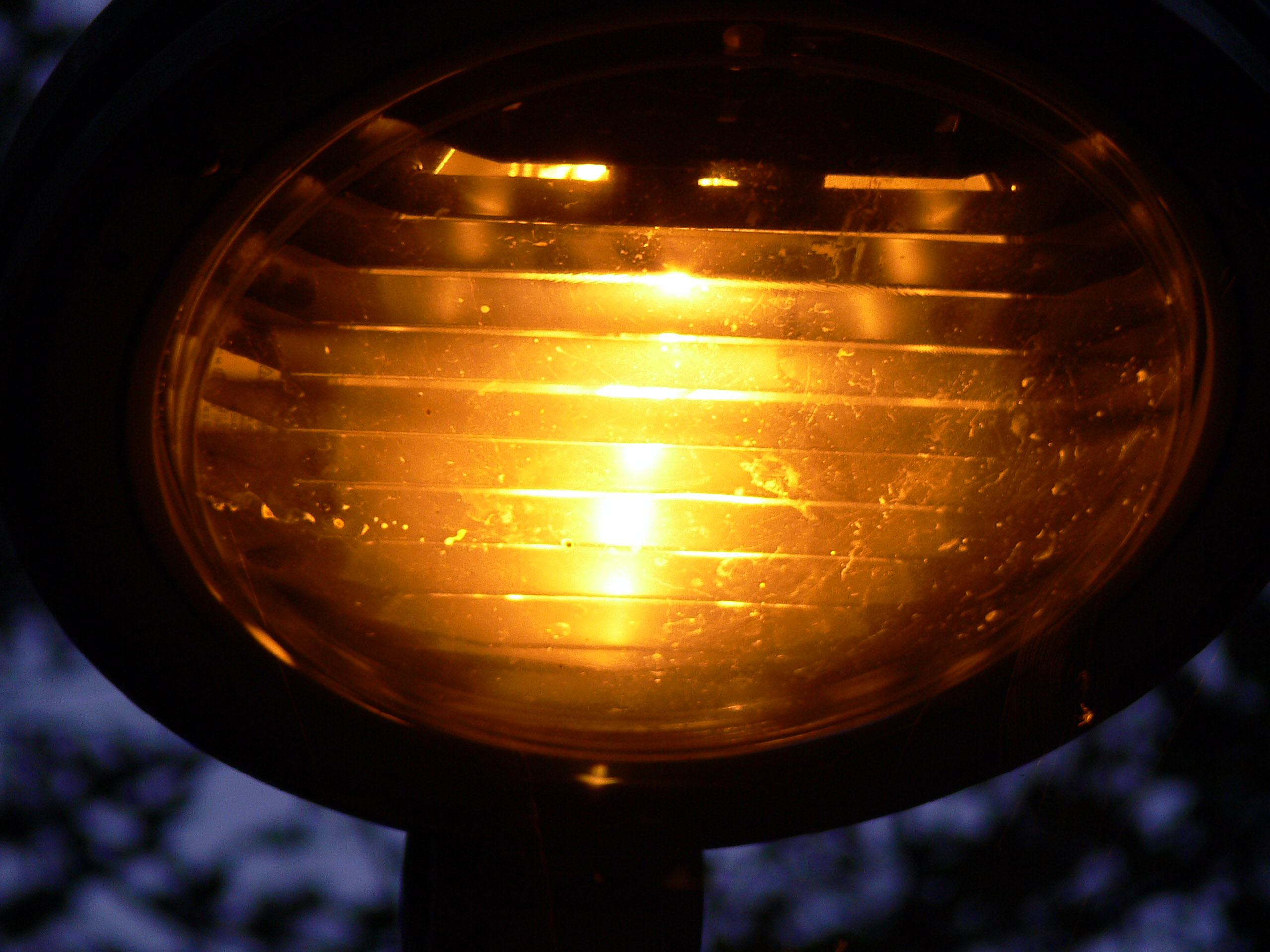 Model of tlight designed for better protection of nocturnal environment, lighting is trimmed with an internal special bafflage guiding light more vertically to the ground and minimizing glare on the outskirts of luminaire (for men, and for wildlife, which may be sensitive , as butterflies, birds and bat or other nocturnal animals). This limits the light that contributes to light pollution. The spectra of light (yellow color) is also deemed less disruptive for wildlife.Location: "wood" from the Citadel, a city of France, in the north of France.